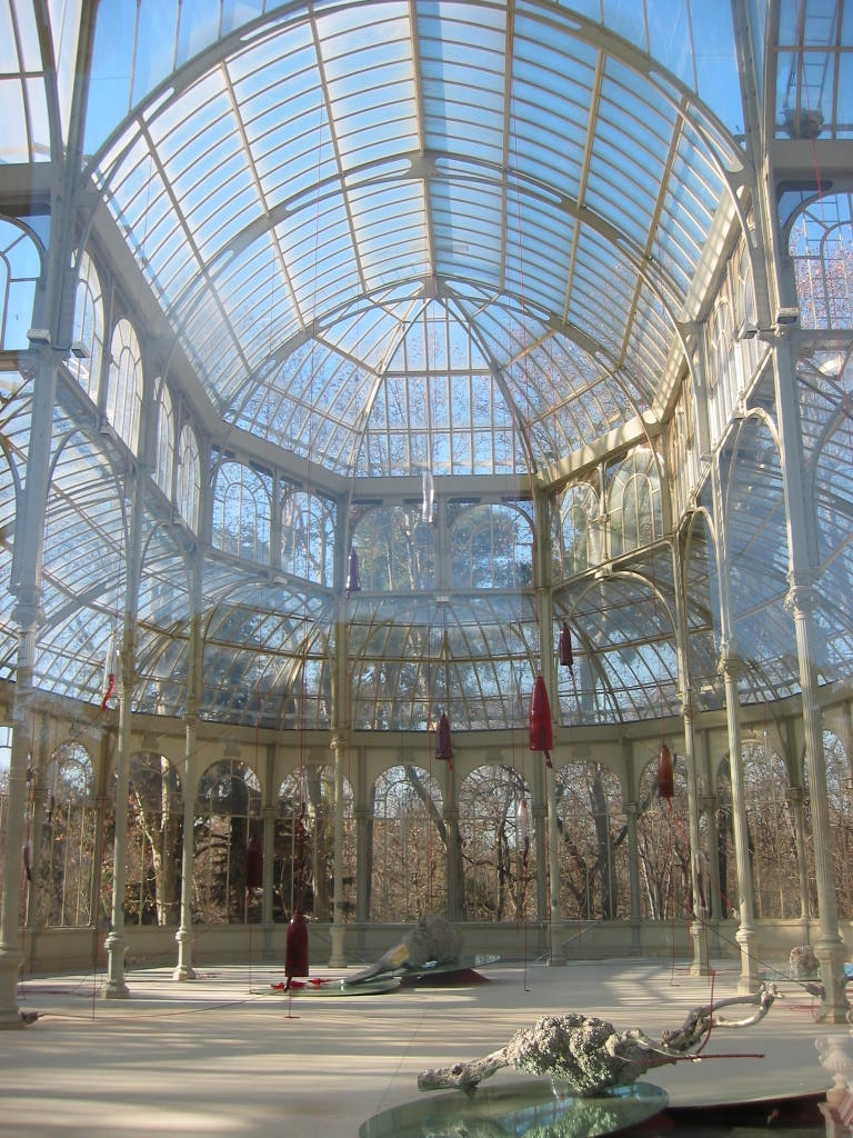 An exhibition of crystal bells inside the Crystal Palace of Buen Retiro Park, Madrid.